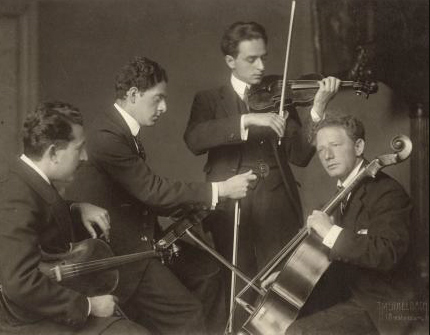 Budapest String Quartet at concert tour in Scheveningen, the Netherlands. Stephan Ipolyi (viola), Emil Hauser (violin), Alfred Indig (violin), Harry Son (cello).